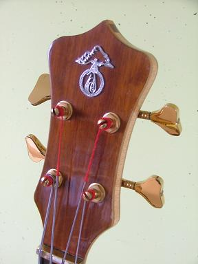 Crown headstock with logo of an Alembic Series 1